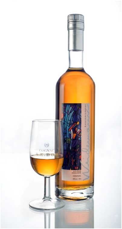 A.E. Dor Weidemann Exclusive cognac, produced in 2007, for the 150 years anniversary of Steinkjer city (Norway).